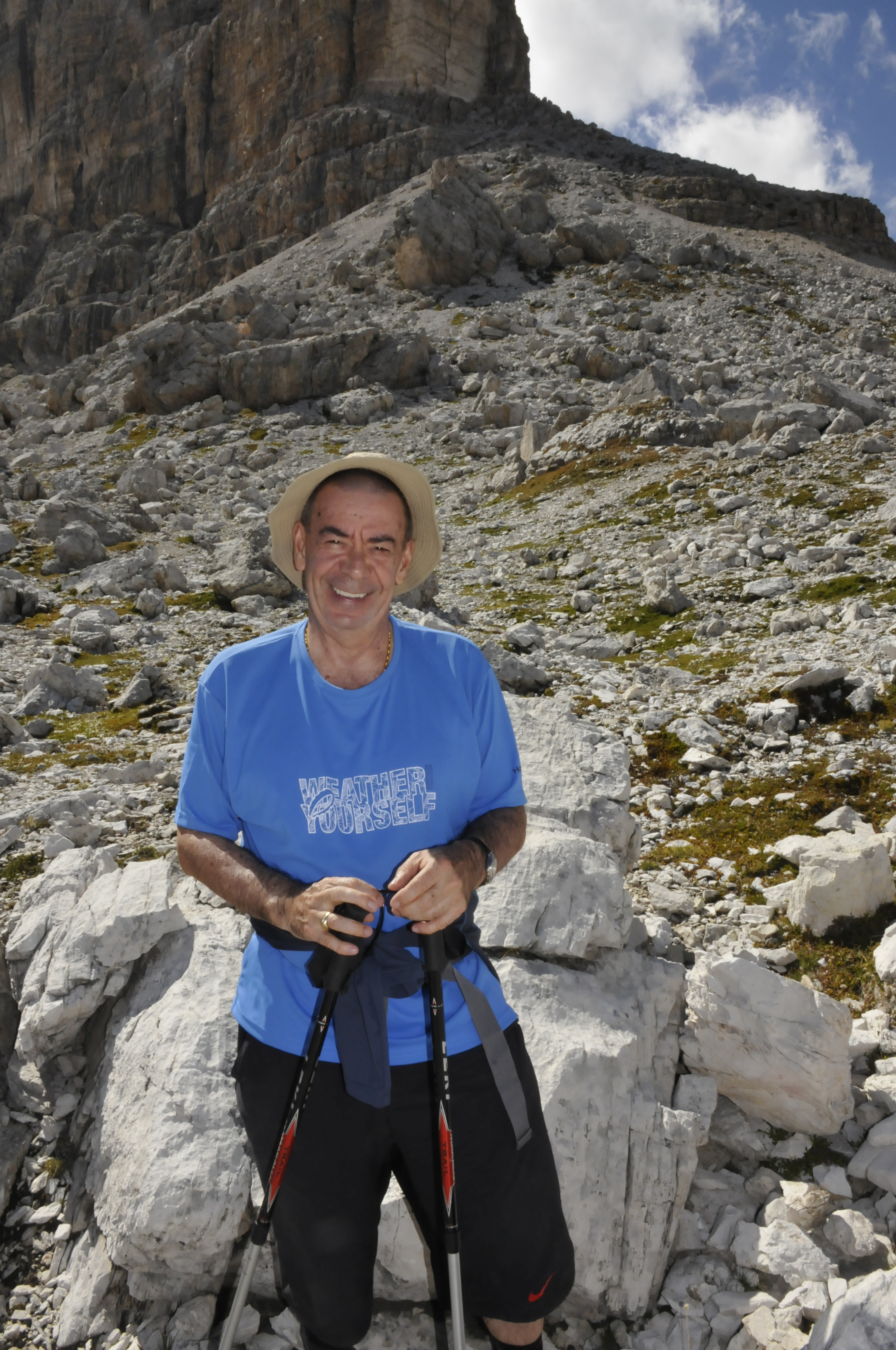 Norbert Kostner, chef at the Oriental Hotel in Bangkok